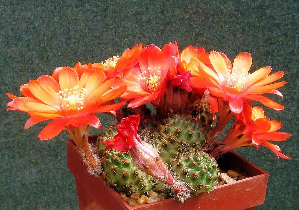 Rebutia pygmaea (Rebutia iscayachensis f. SE64) - cultivated plant (seed marked SE64) from own collection.